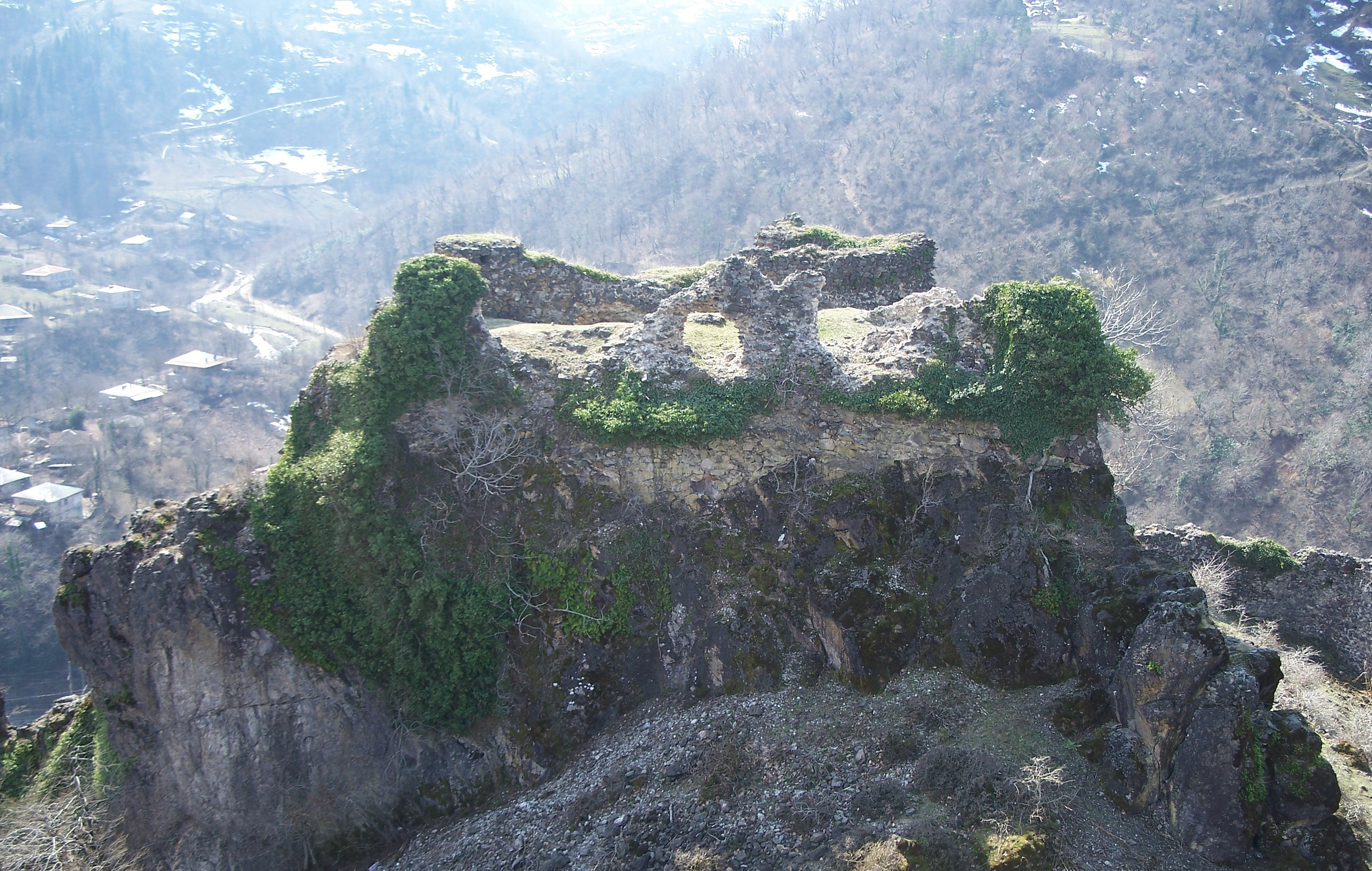 Chkheri castle, Georgia